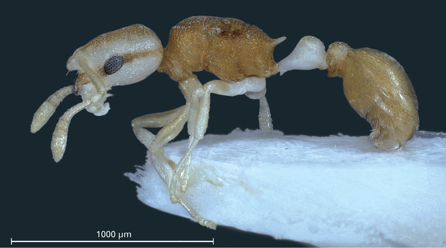 Lateral aspect of a Cardiocondyla pirata paratype gyne. Postpetiole and gaster are distorted to a ventrolateral viewing position making visible both lobes of postpetiolar sternite.